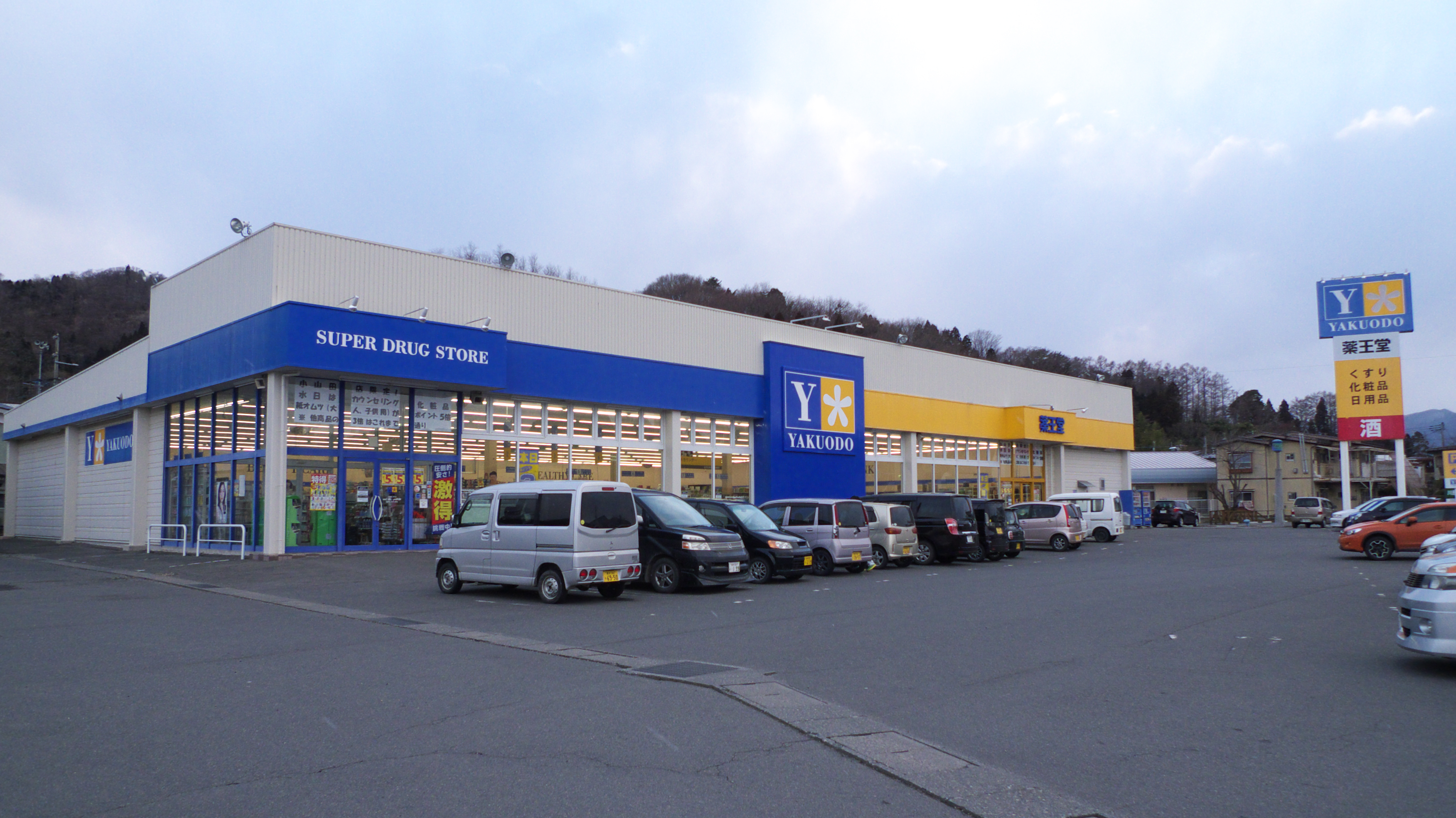 Yakuodo Miyako Koyamada Store in Miyako City, Iwate Prefecture, Japan